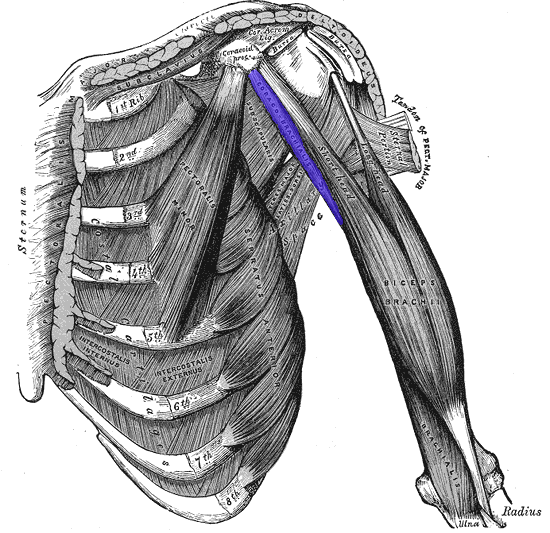 Image of the Coracobrachialis muscle